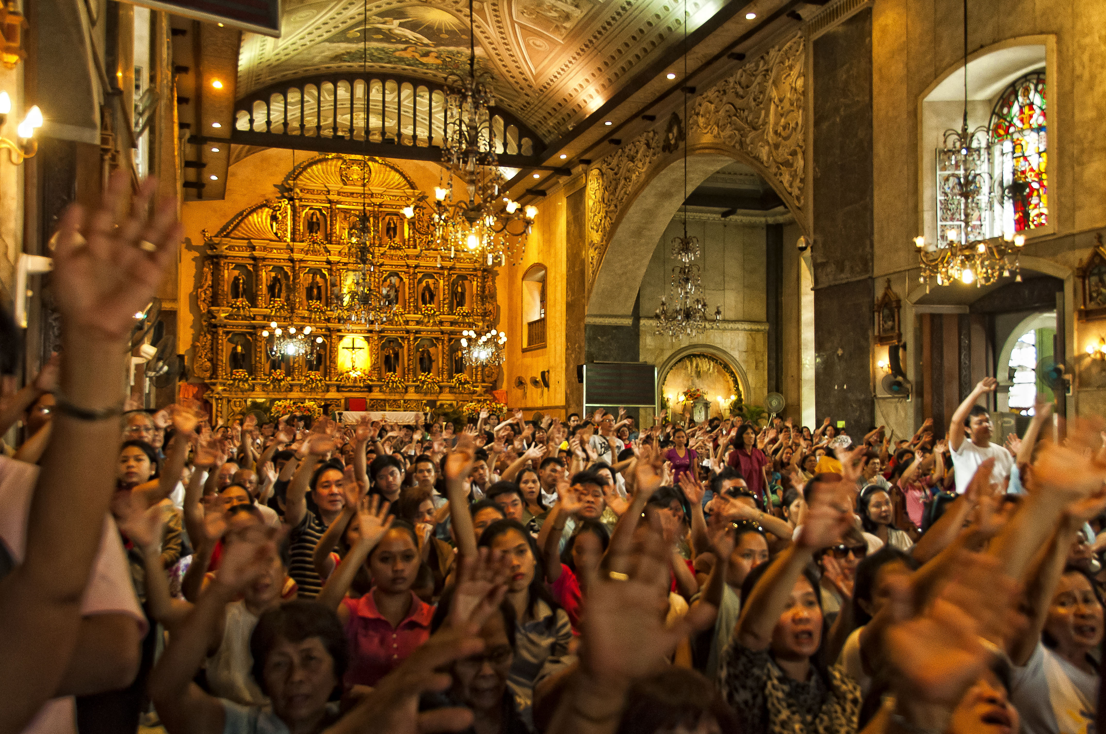 During Sinulog, overwhelming number of devotees utilize the Basilica to attend mass being held at the Pilgrim Center outside.